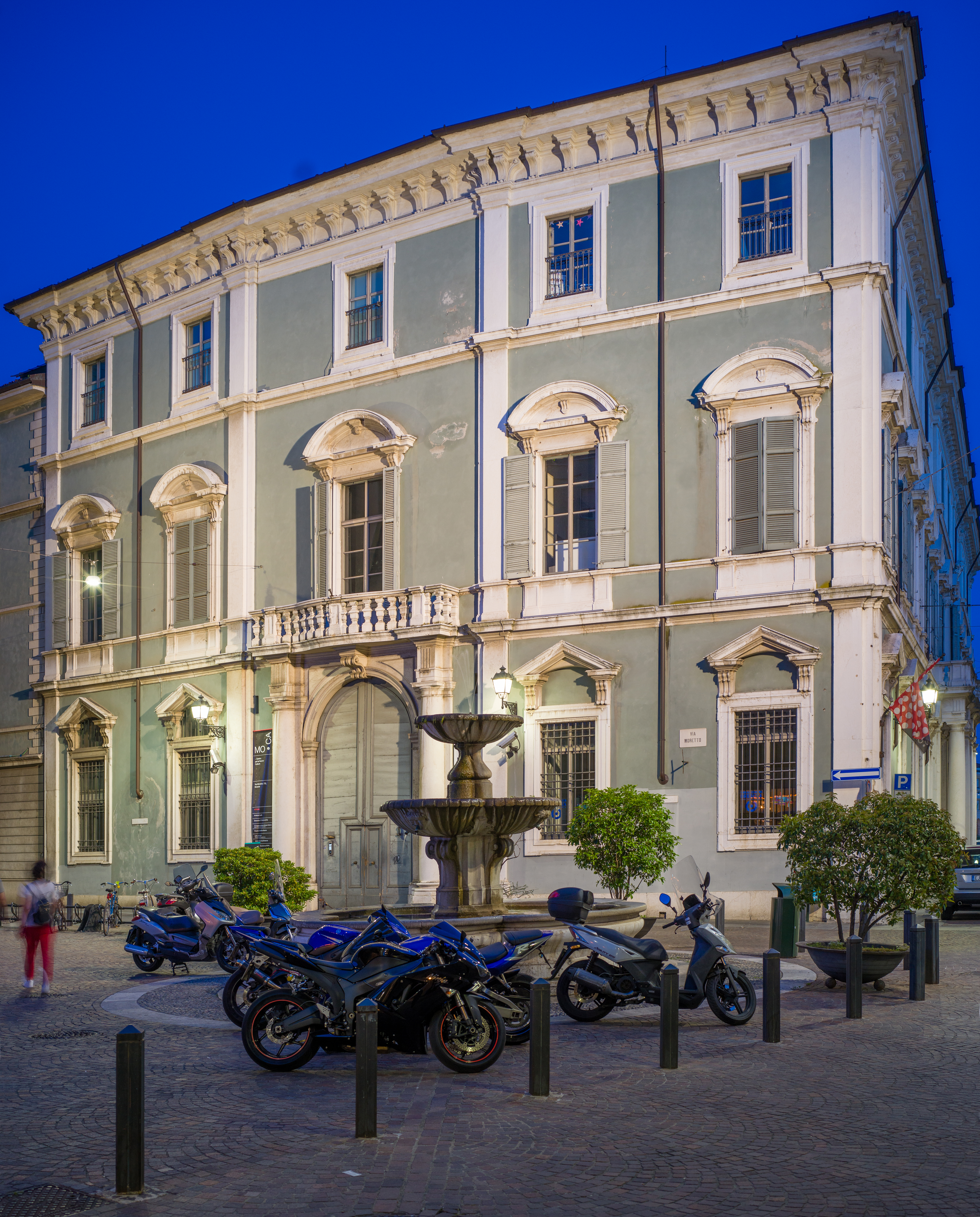 Facade of Palazzo Martinengo Colleoni di Malpaga on Via Moretto street in Brescia.